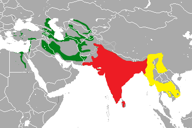 Distribution of Felis chaus subspecies Green - Felis chaus chaus Red - Felis chaus affinis yellow - Felis chaus fulvidina